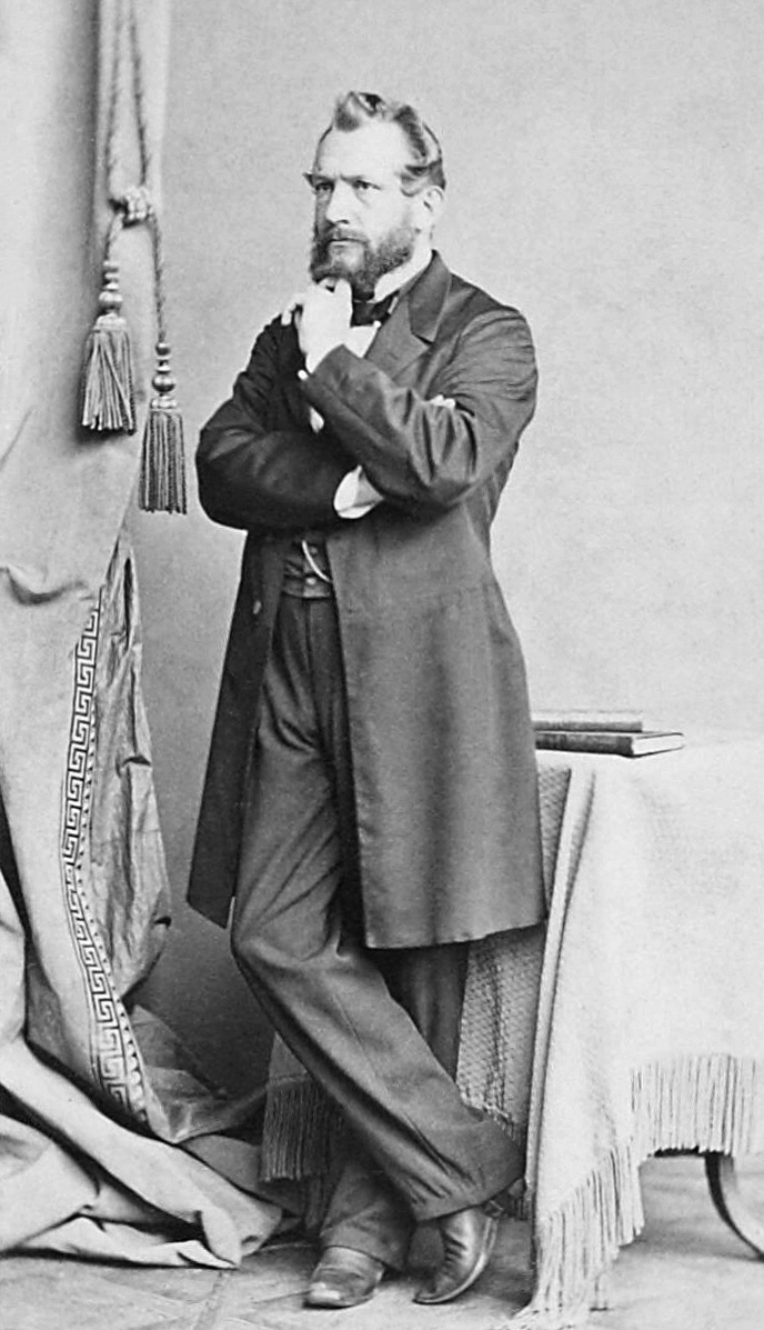 Emil du Bois-Reymond (1818-1896). German physician and physiologist, the discoverer of nerve action potential, and one of the fathers of experimental electrophysiology.